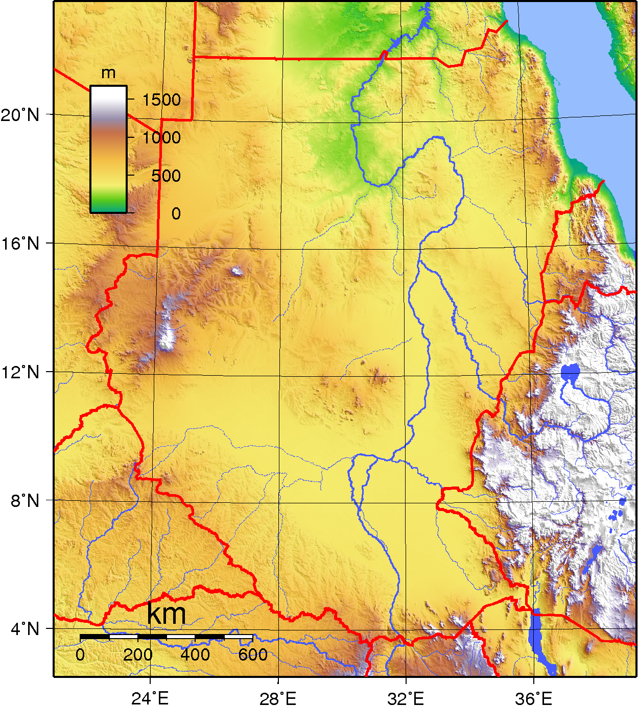 Topographic map of Sudan. Created with GMT from publicly released GLOBE data.